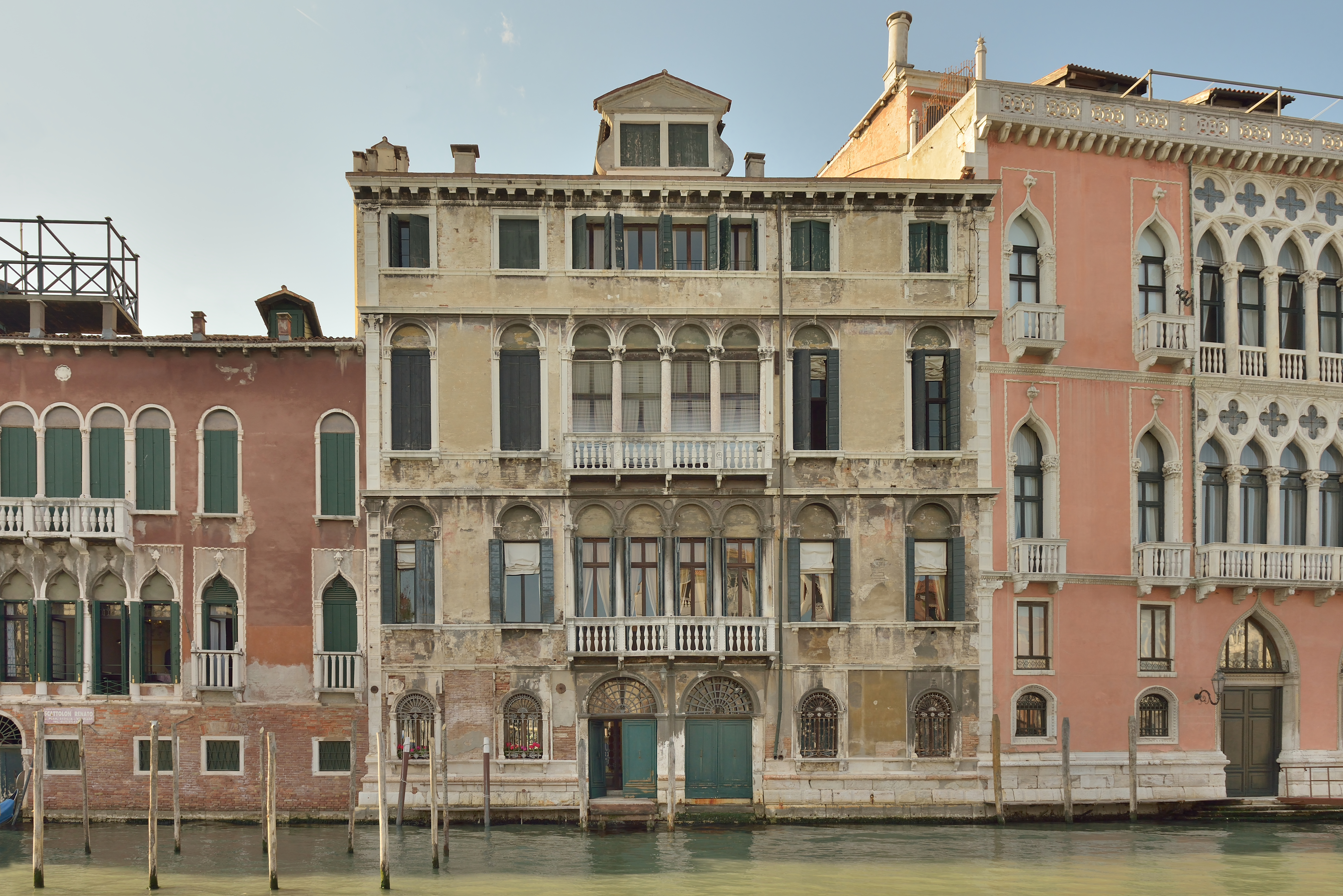 Palazzo Soranzo Pisani on the Canal Grande in Venice.